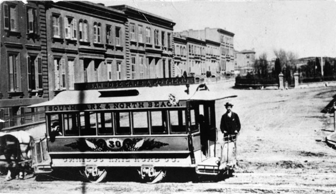 A 19th century horse-drawn streetcar owned by the Omnibus Streetcar company in San Francisco